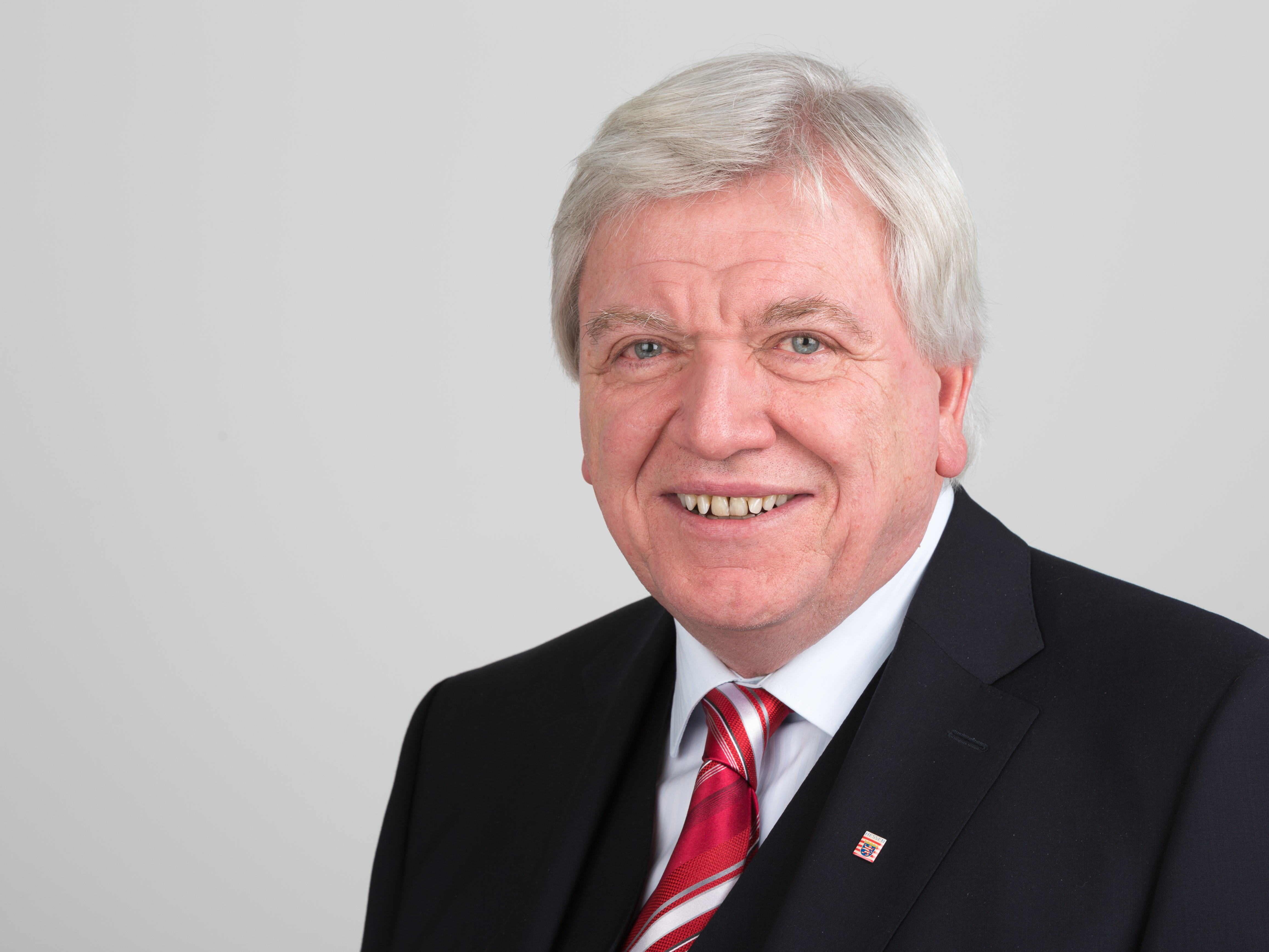 Volker Bouffier, Minister-President of the German state of Hesse